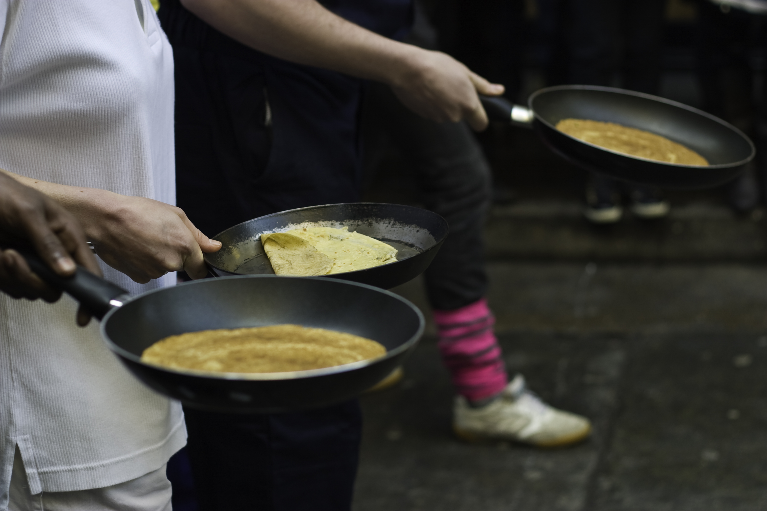 Pancake race London